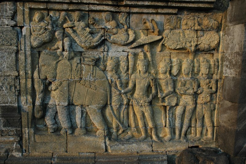 Carved reliefs in Borobudur -- by User:Jpatokal